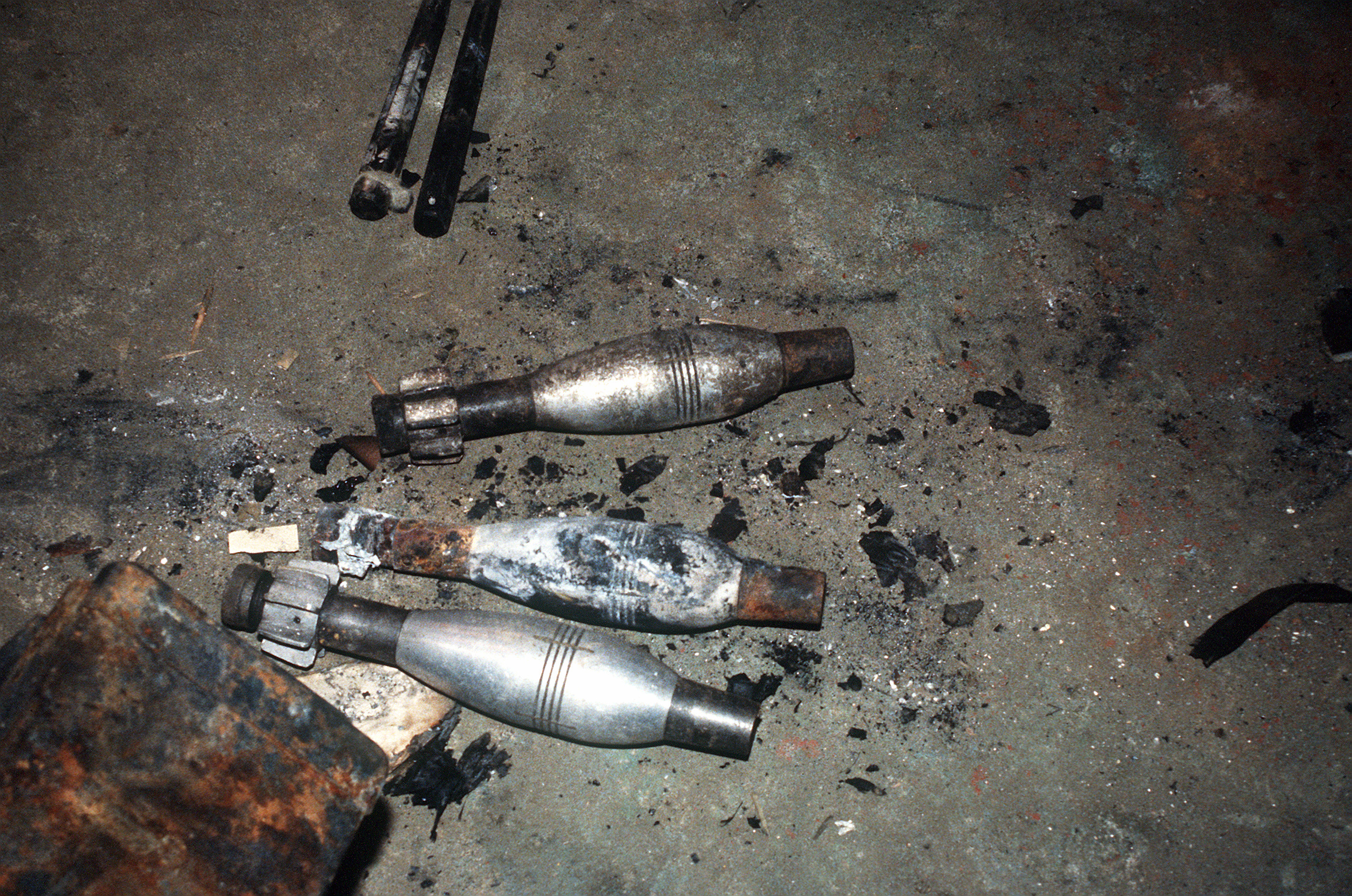 Mortar shells recovered from the wreckage of an Arrow Air DC-8 commercial aircraft are stored in a Gander Airport hangar for analysis by members of the Canadian Air Safety Board. The aircraft crashed at the airport with no survivors on December 12, 1985, while carrying 248 members of the 3rd Bn., 502nd Inf., 101st Airborne Div. They were returning to the United States after participating in peacekeeping duty with the Multinational Force and Observers in the Sinai Desert.